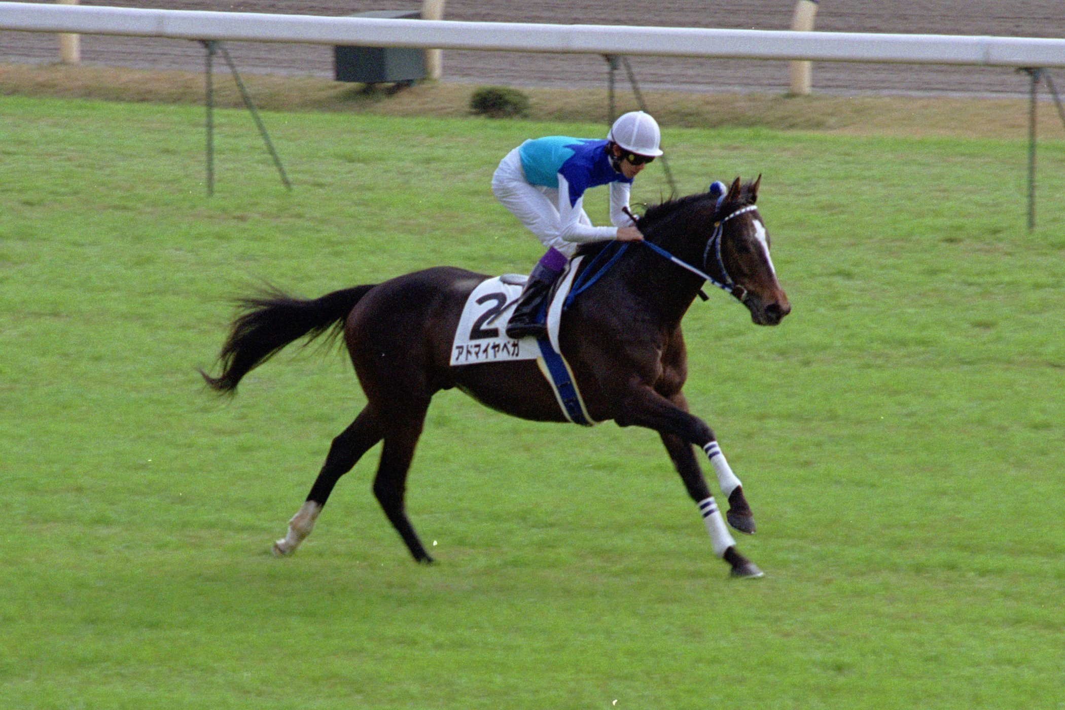 Admire Vega at his Retiring Ceremony in Tokyo Race Course